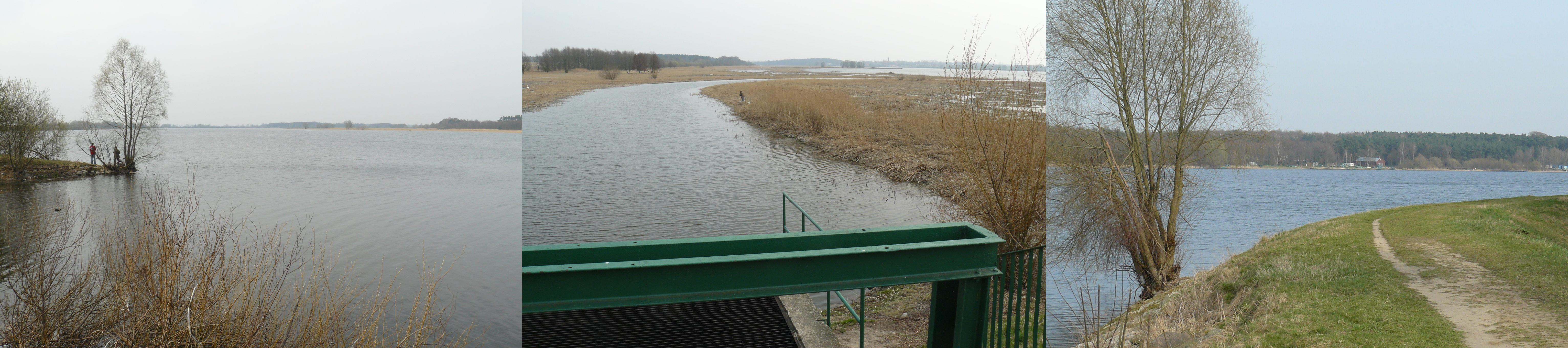 Woniesc Lake, PL.